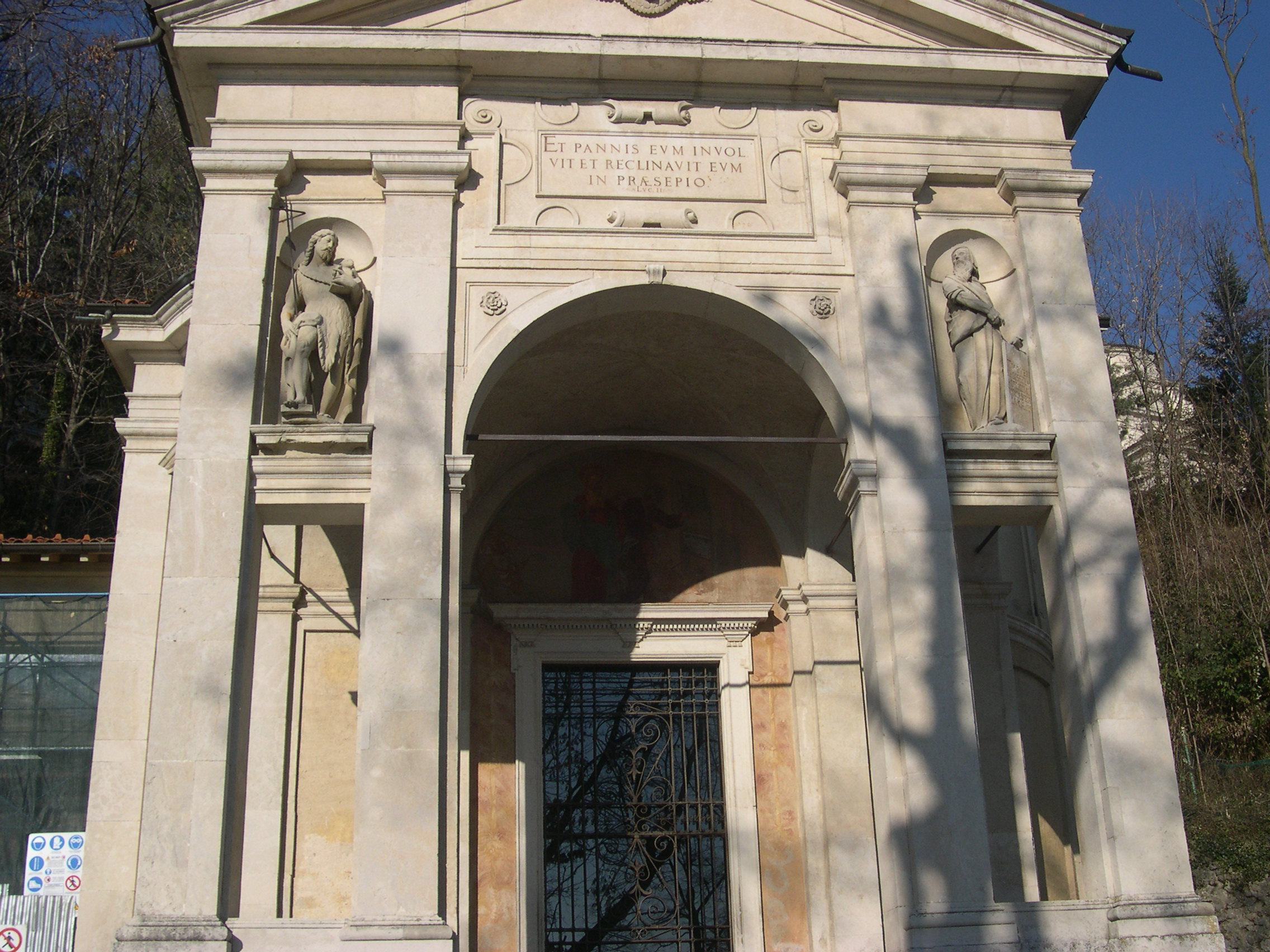 Chapel III of the Sacro Monte (Varese)